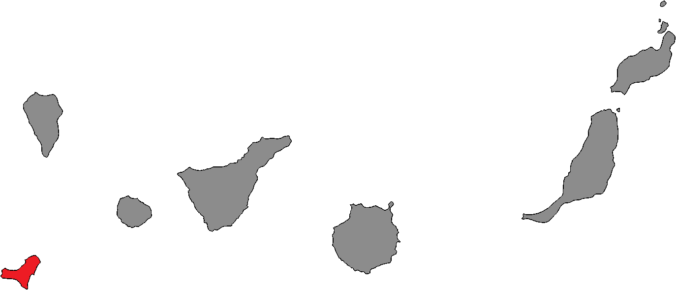 Canarian Parliament district of El Hierro.